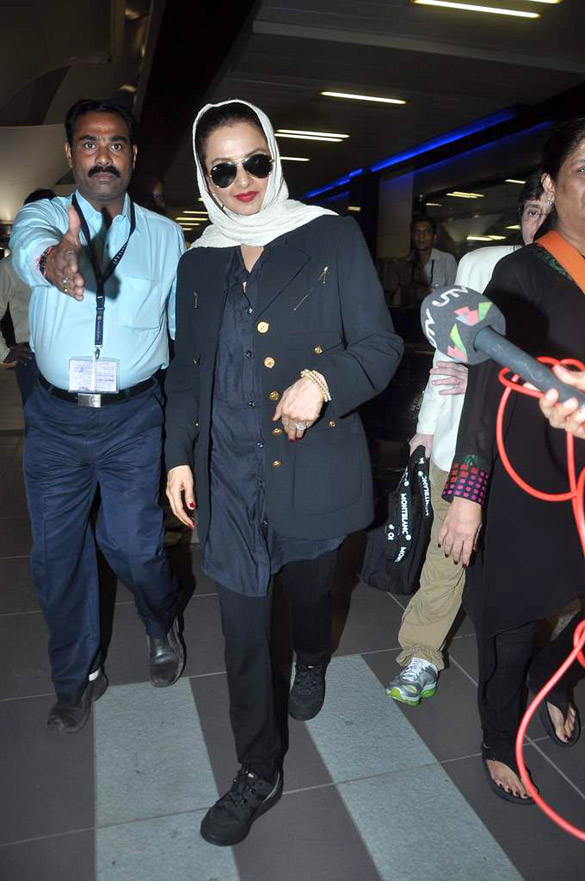 Rekha returns from IIFA 2012